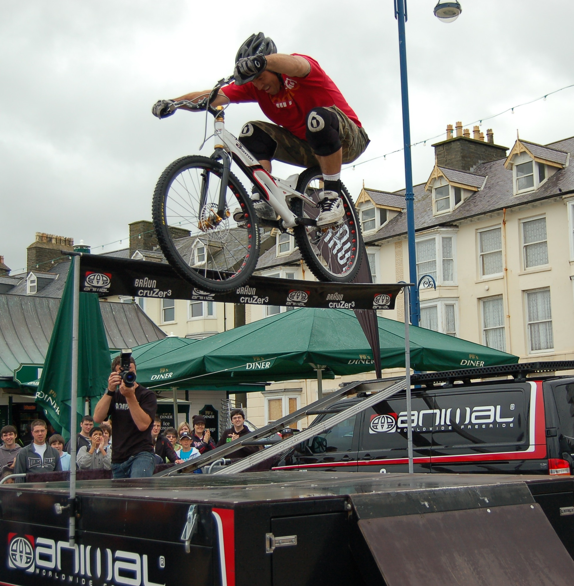 Martyn Ashton demonstrating at the Animal Bike Tour, on the North Beach promenade, Aberystwyth.